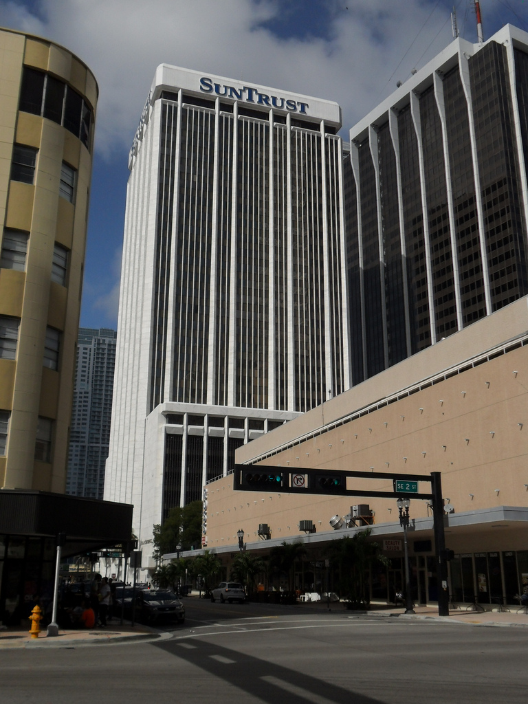 SunTrust International Center building in Downtown Miami from the southwest.